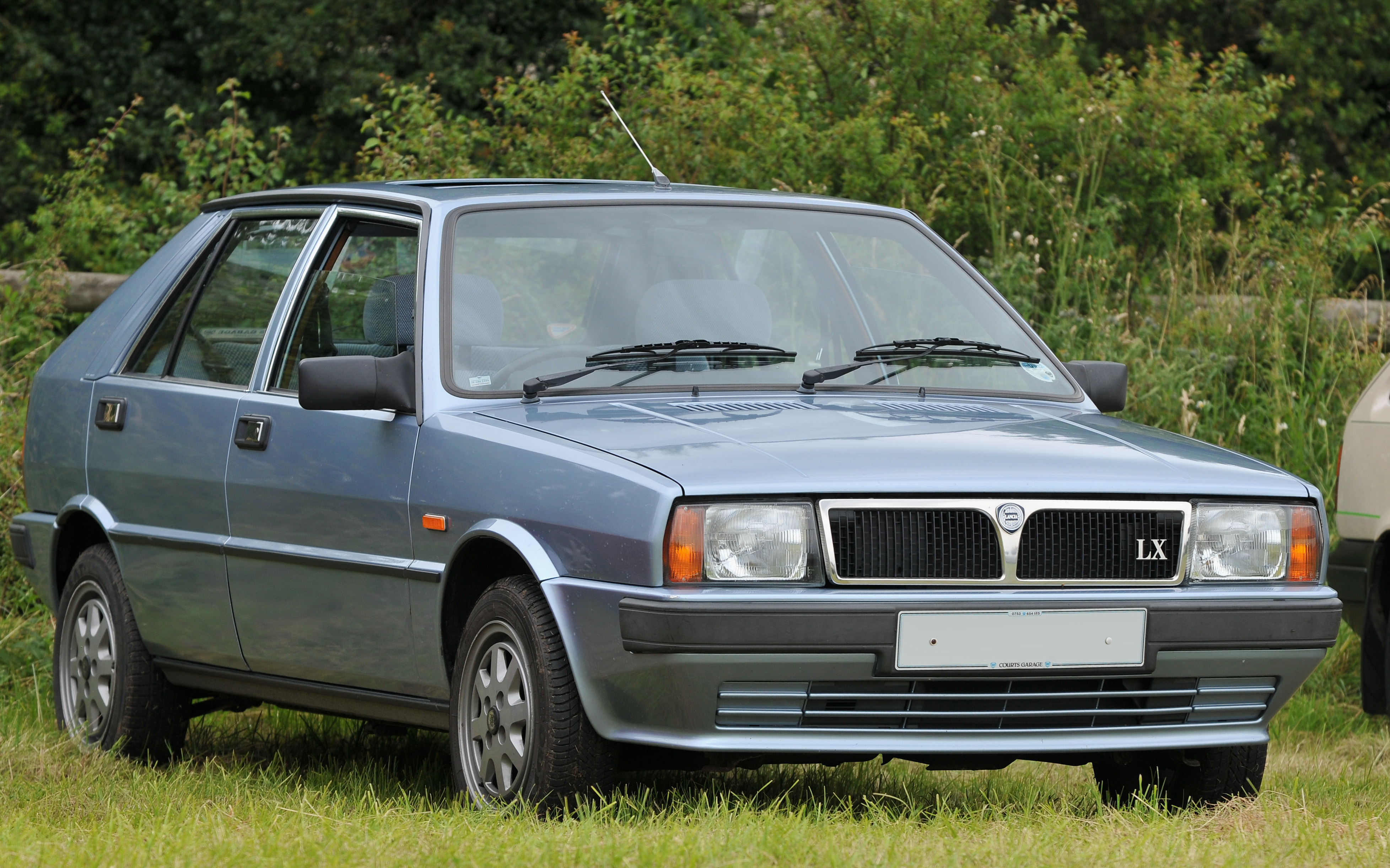 Lancia Delta LX Photograph taken at Shitefest 2012 Wiltshire.